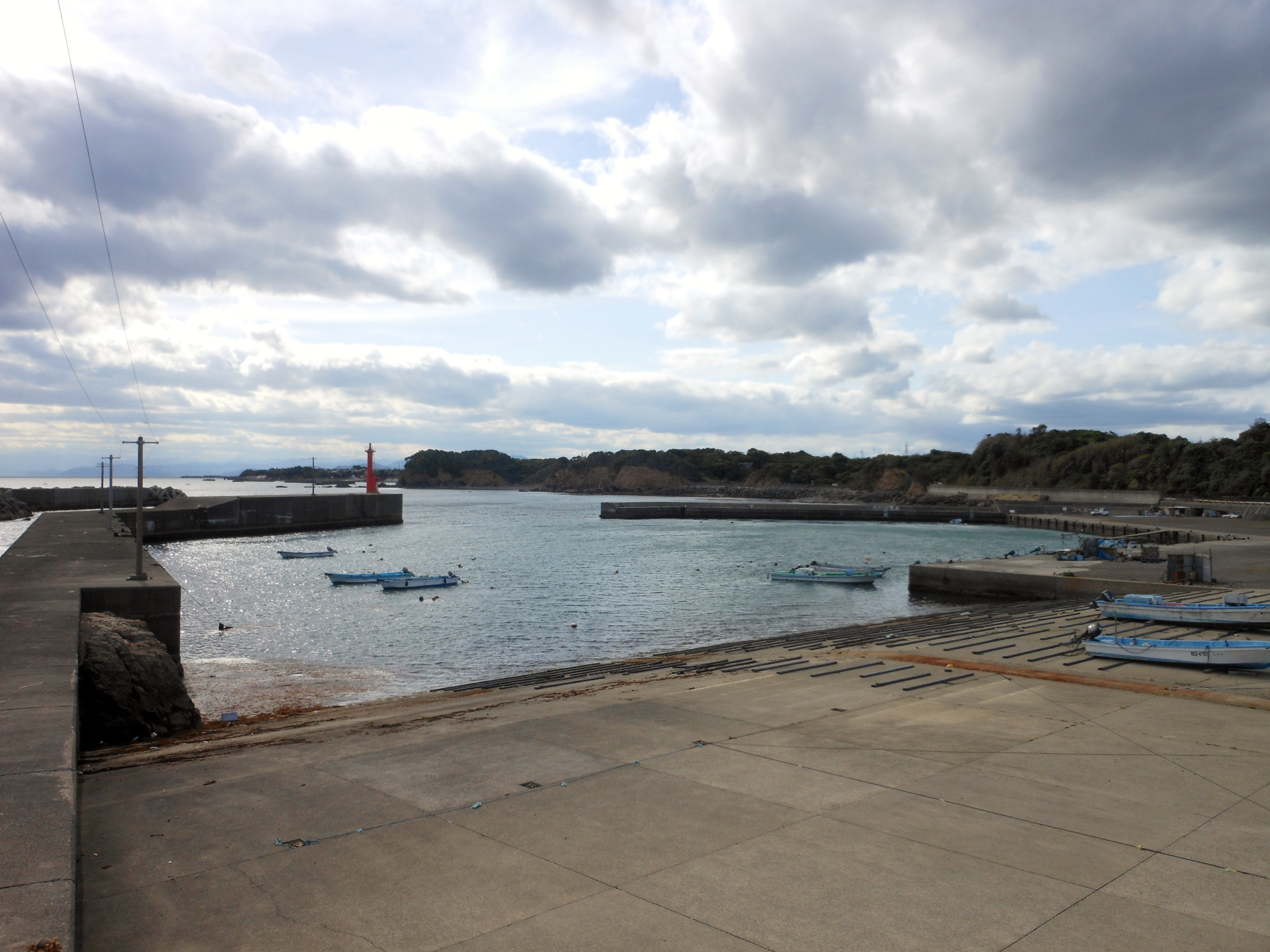 This is a fishing port, which is located in Shimacho-Katada, Shima, Mie, Japan.